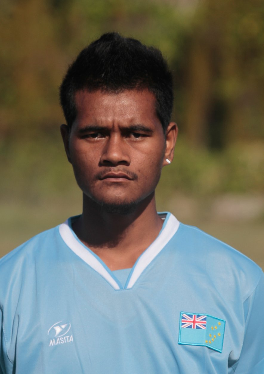 Malona_Taukatea